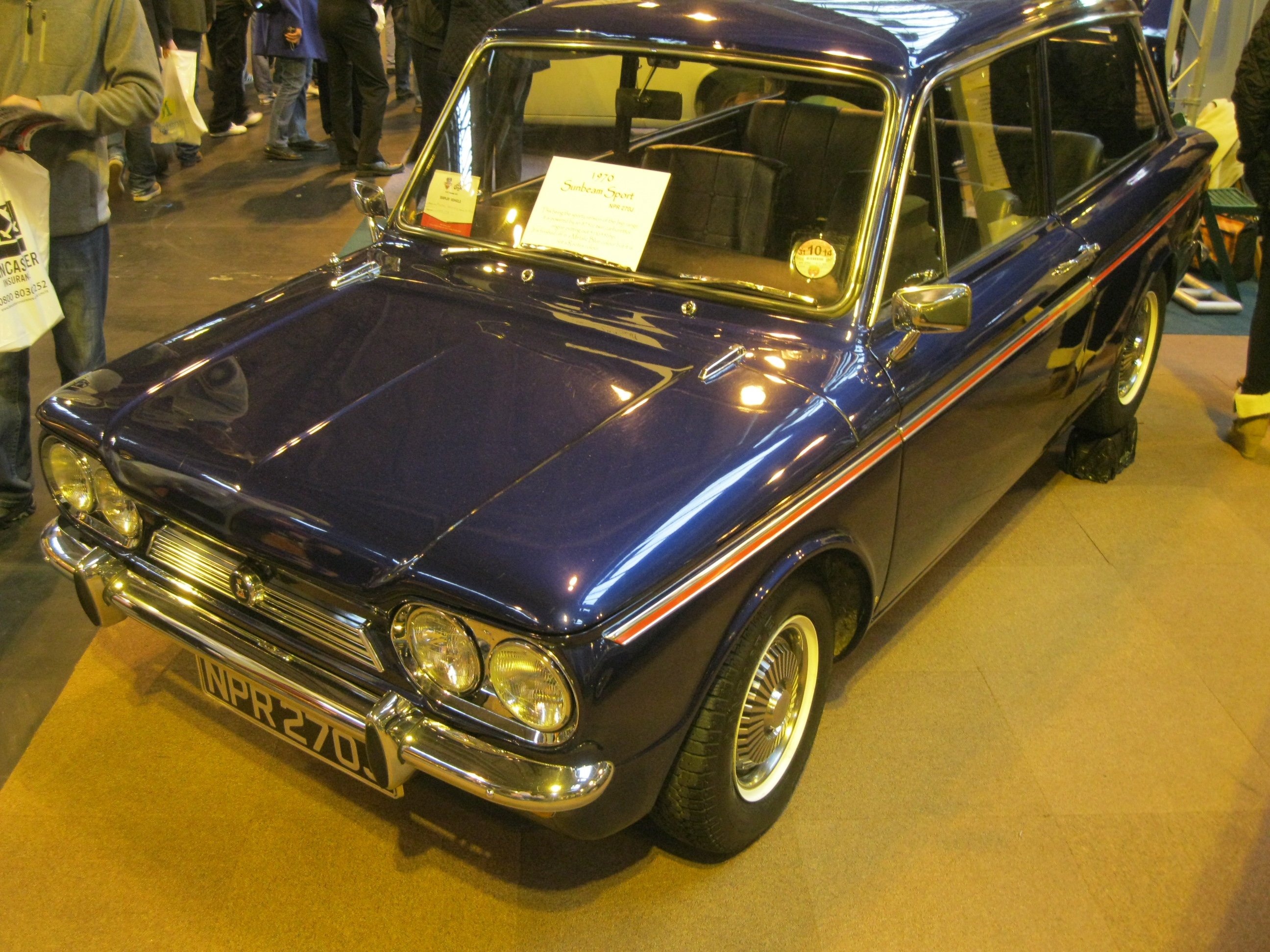 Great underrated car! Exhibited at the NEC Birmingham Classic Car show, November 15-17 2013